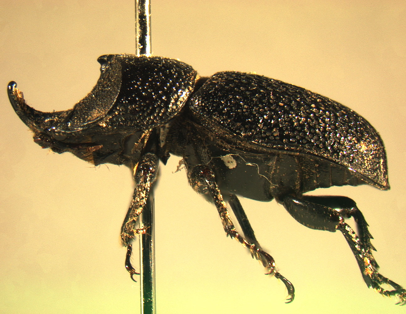 lateral view of Sinodendron rugosum